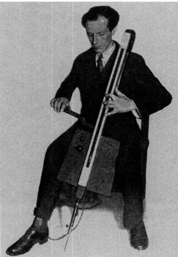 Fingerboard Theremin (or Theremin Cello) in 1930 by the Teletouch Corp., Leon Theremin's New York company.